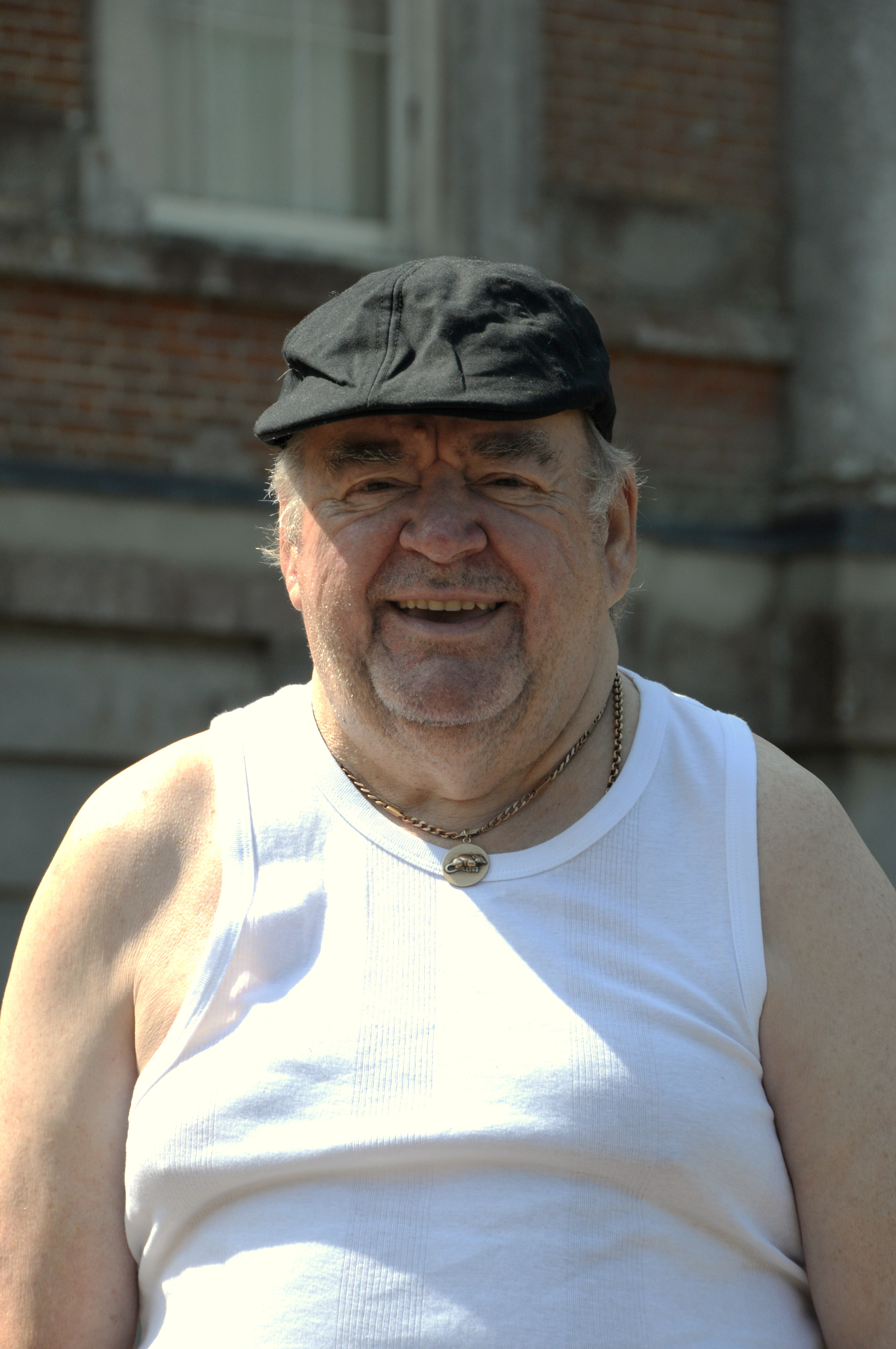 Paul Shane as Terry 'The Taxman' Tempest in short film The Grey Mile. July 2011.